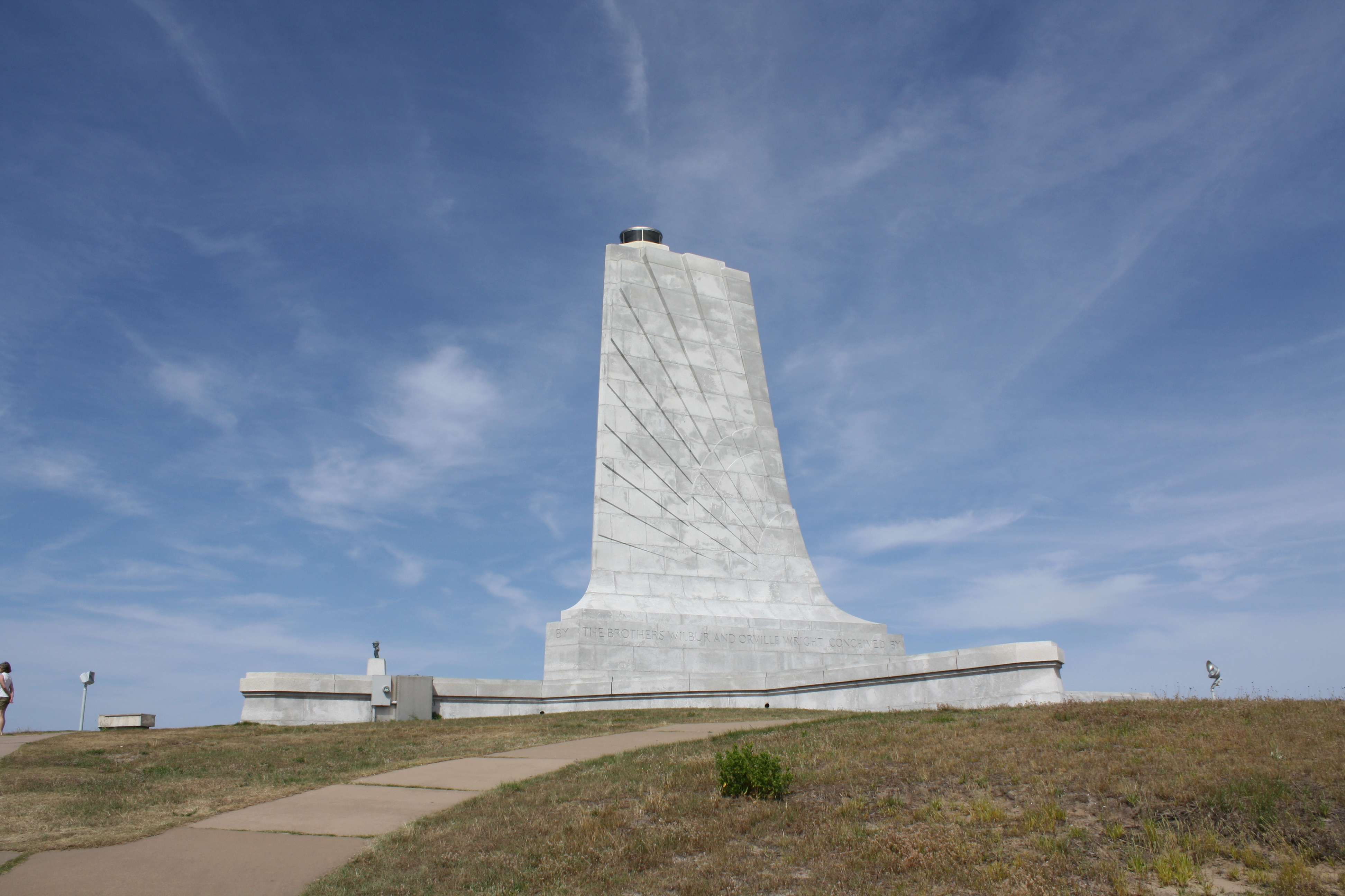 Shot of the Kitty Hawk memorial for the Wright Brothers.